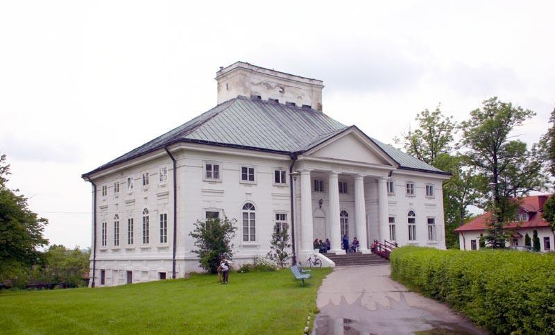 Clasicist palace in Bejsce, Poland (built 1802)